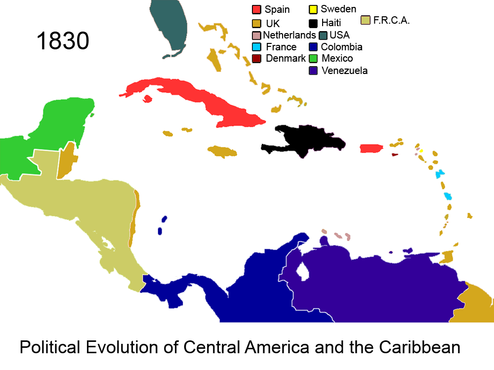 Political Evolution of Central America and the Caribbean — in 1830.